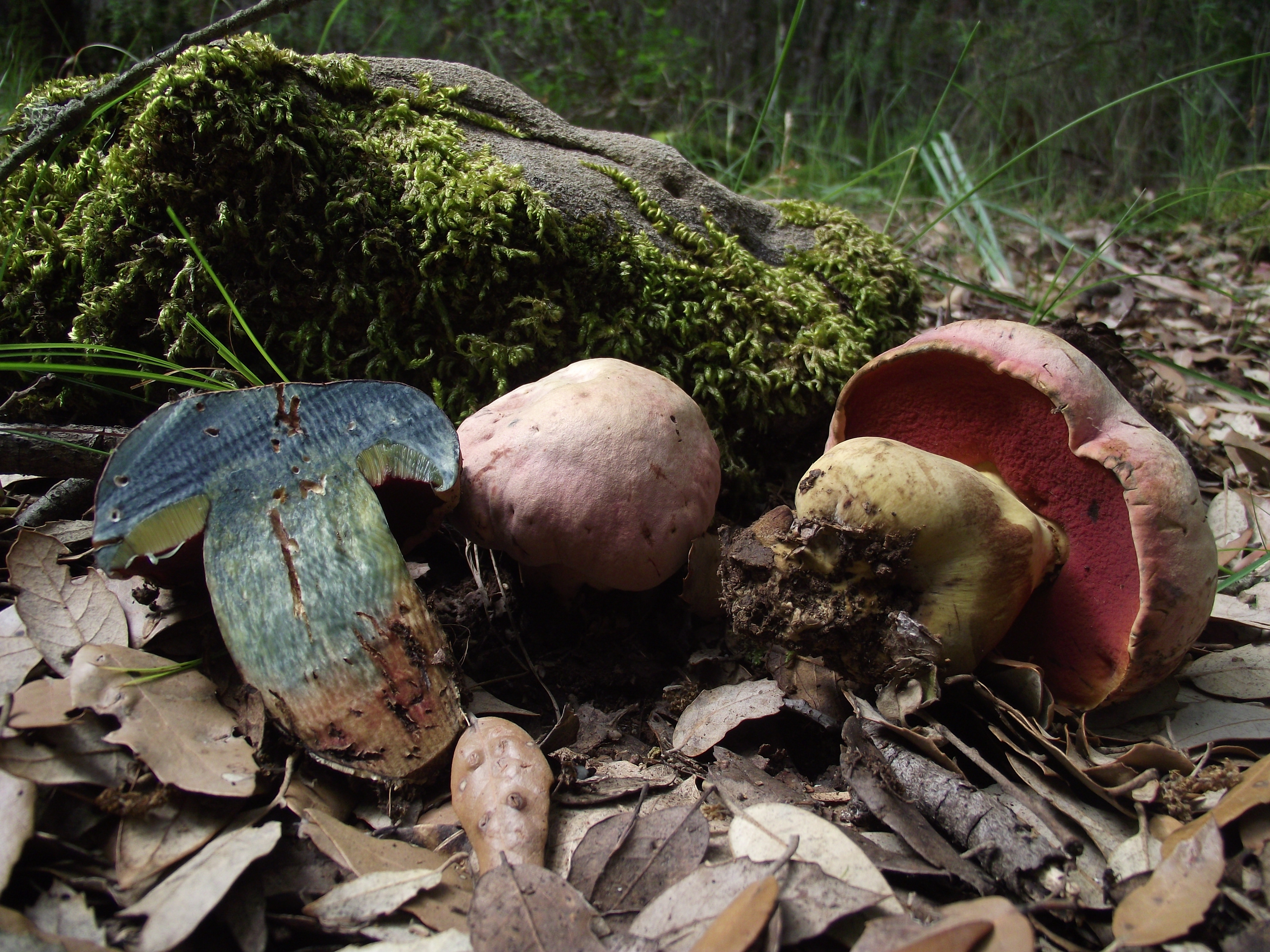 Rubroboletus lupinus Image location: Isili, Italy For more information about this, see the observation page at Mushroom Observer.